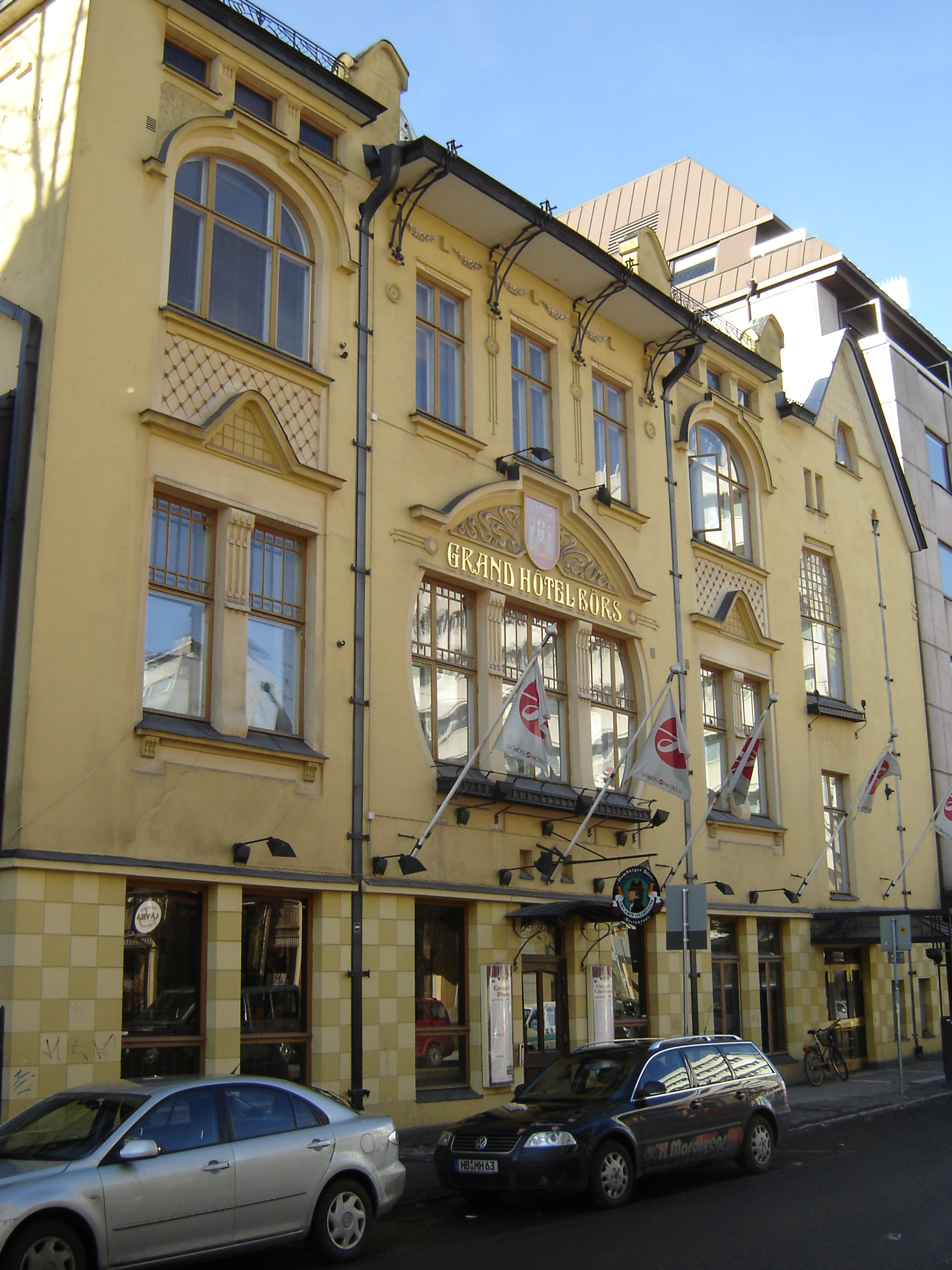 Hotel Börs in Turku